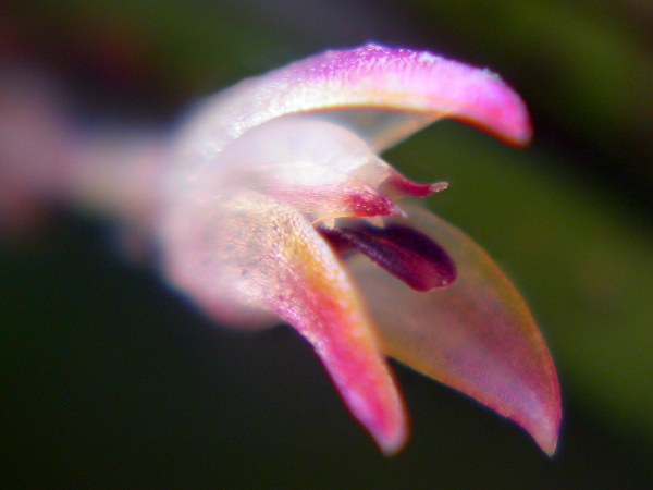 Anathallis